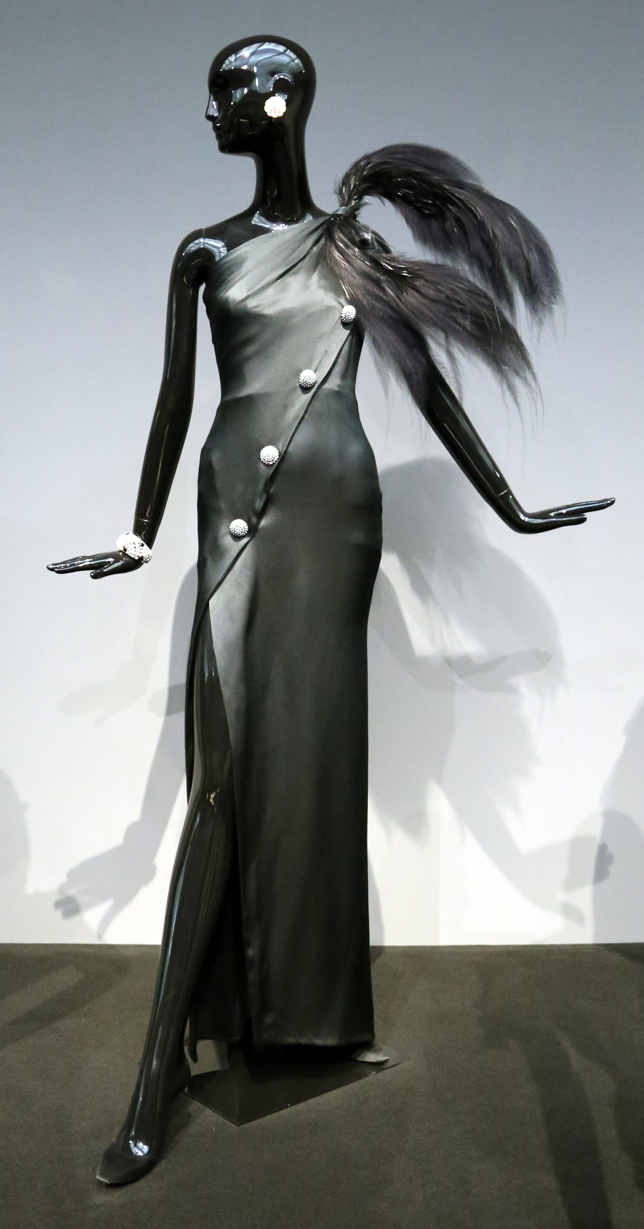 Givenchy exhibition in the Gemeentemuseum Den Haag (2017)